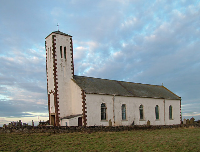 Jurby Church - Isle of Man. Visible from a long distance away due to its prominent coastal location, the tower has a distinctive lean to it.